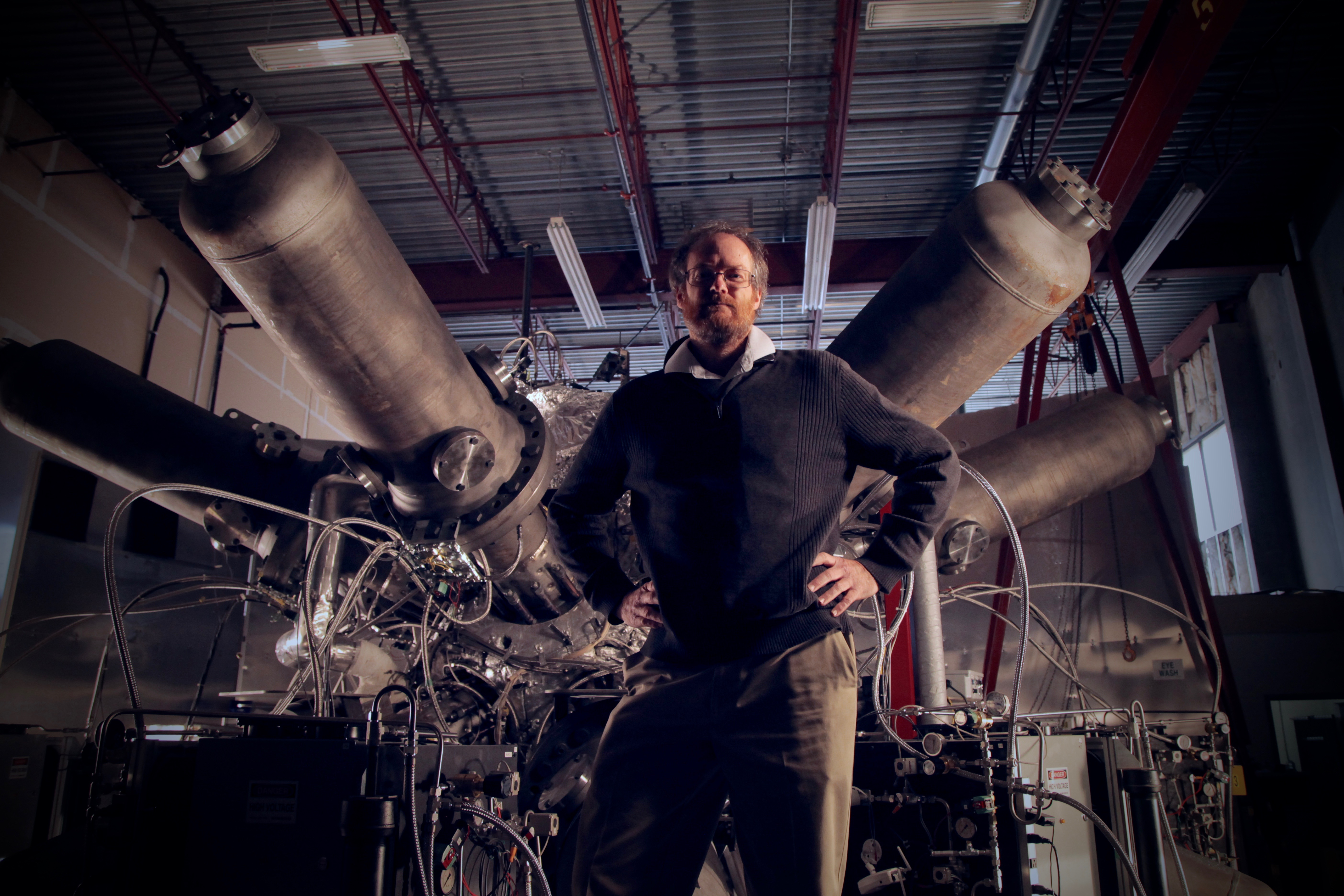 Michel Laberge at General Fusion in front of a reactor for magnetized target fusion. The large pistons are used to pump liquid metal in order to compress the plasma.